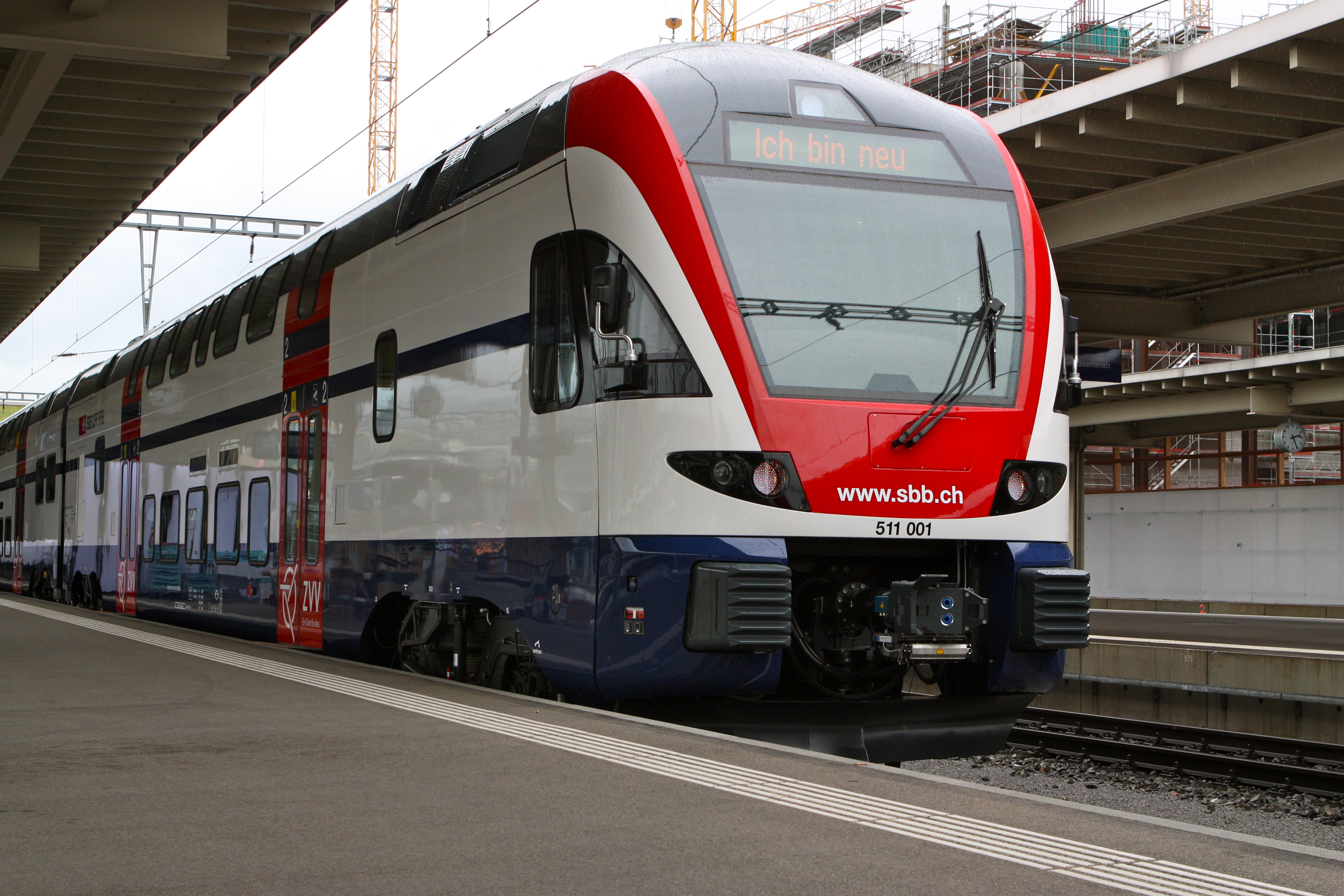 SBB RABe 511 001 at Zurich Main Station